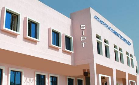 This is the State Institute Of Plumbing And Technology (SIPT), Pattamundai. It is a State Government run institute. It is a premier plumbing institution not only in Odisha, but also in India. Its alumnies have been working at the most reputable companies around the world, maintaining steady and continuous water and drainage systems.